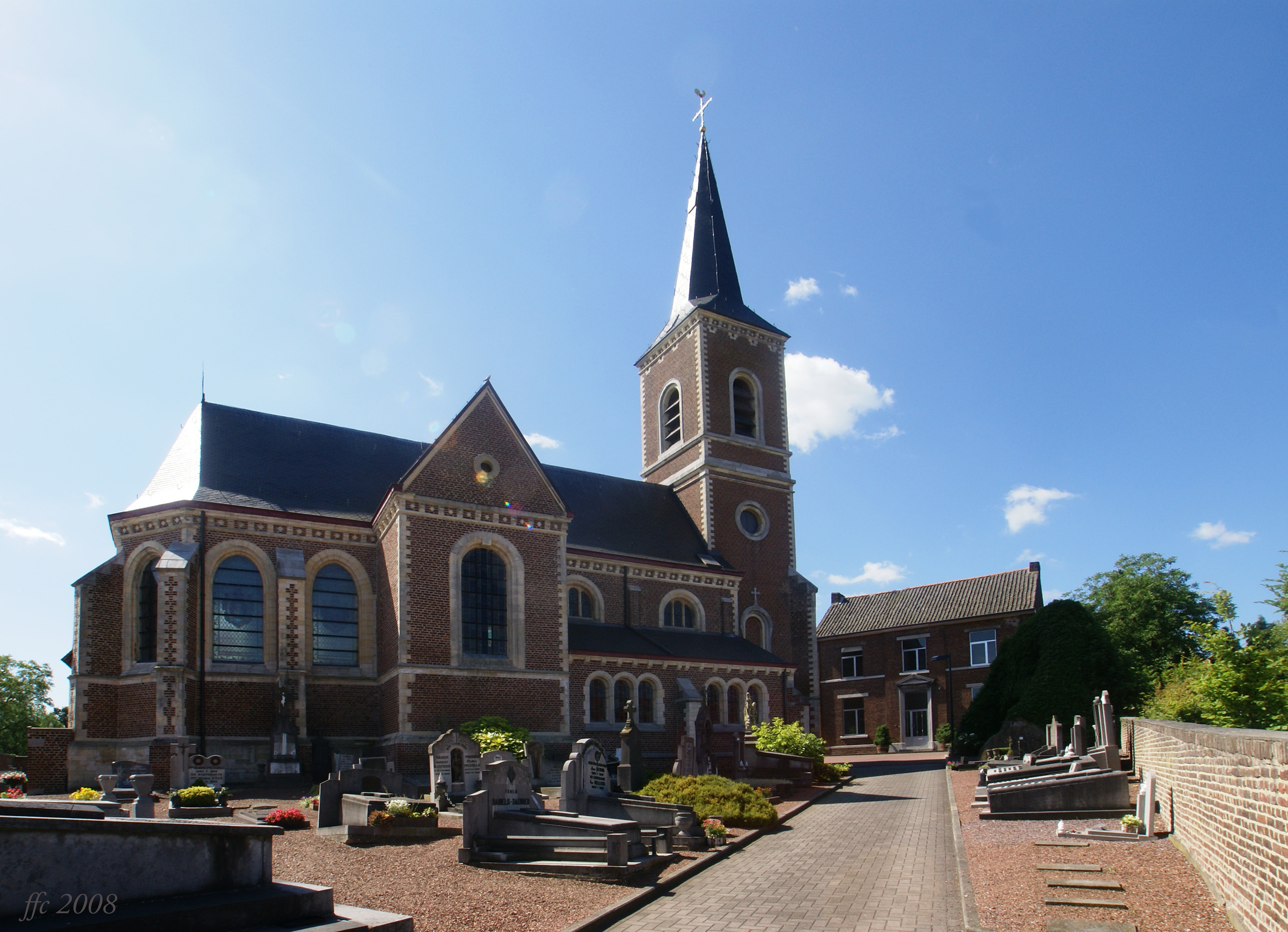 Genoelselderen (Belgium): Saint Martin's Church